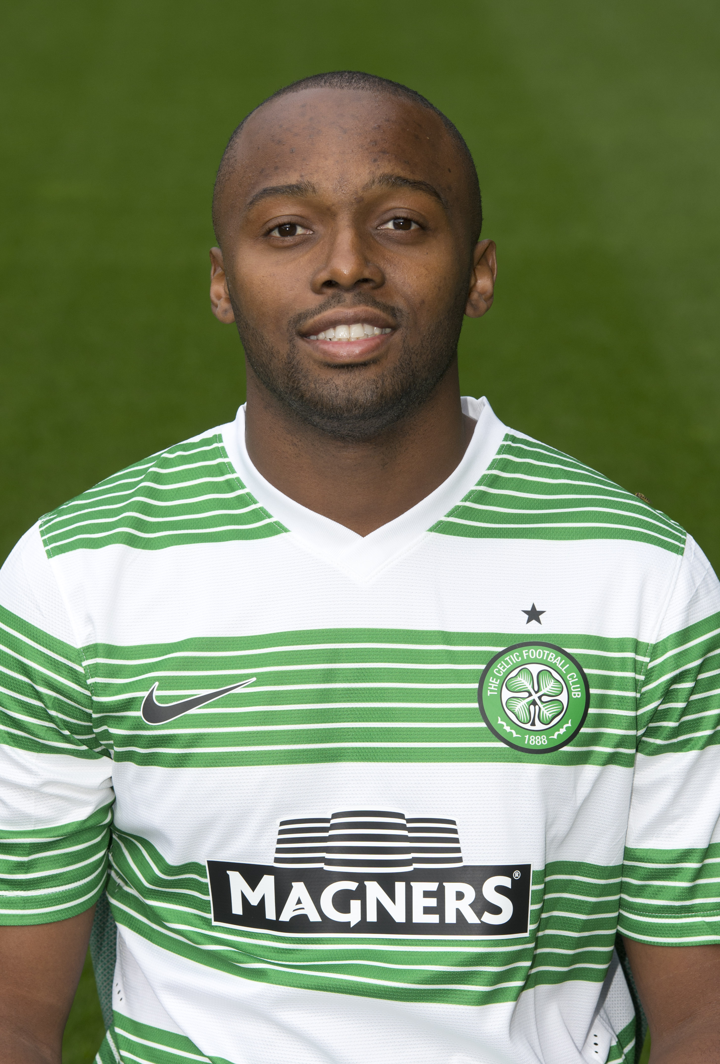 SEASON 2013/2014 CELTIC FC Steven Mouyokolo